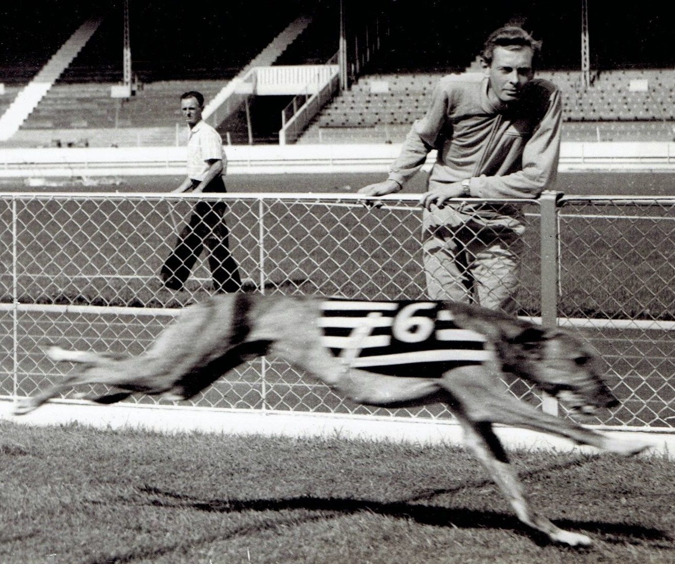 1959 Original Photo Brian Hewson watches greyhound Clonalvy Romance win dog race